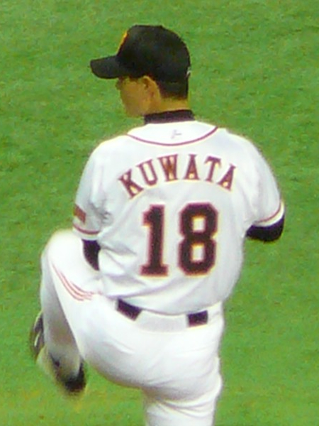 Masumi Kuwata, pitcher of the Yomiuri Giants, at Tokyo Dome.